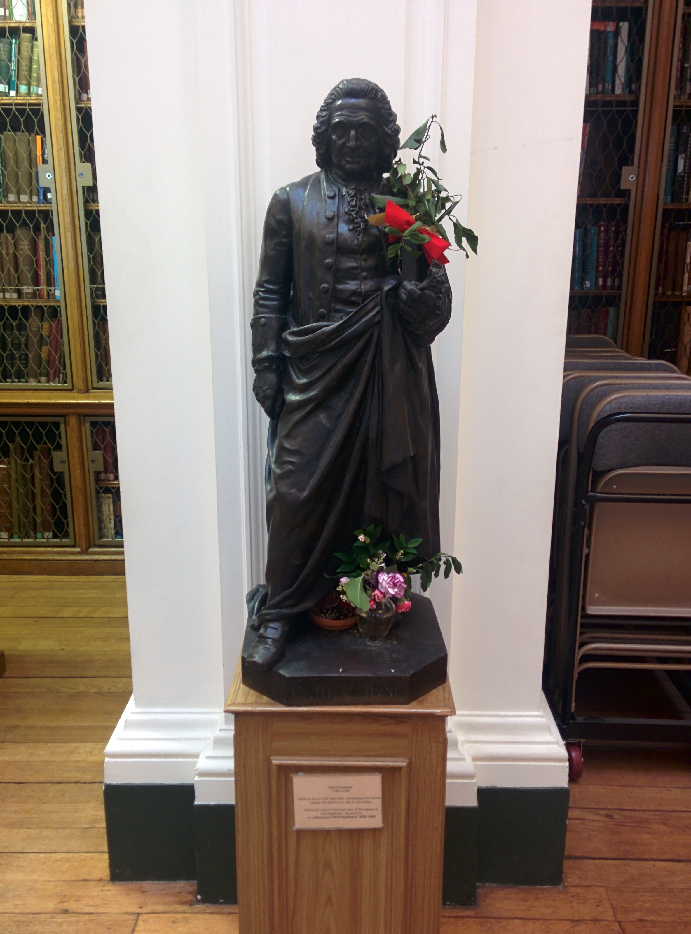 Statue of Carl Linnaeus at the Linnean Society of London